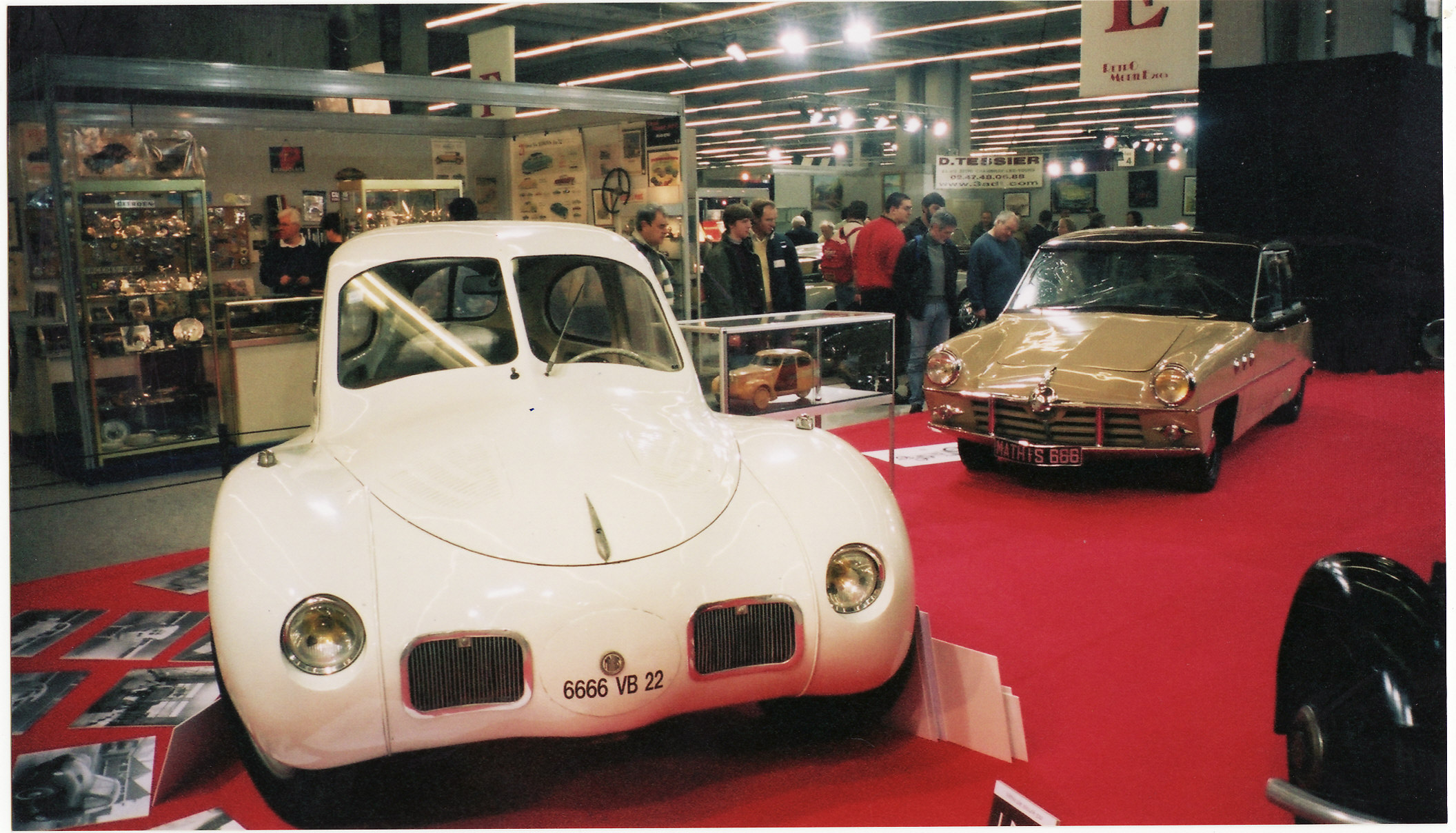 Designed by Andreau. Intriguing. Spotted at Retromobile 2005